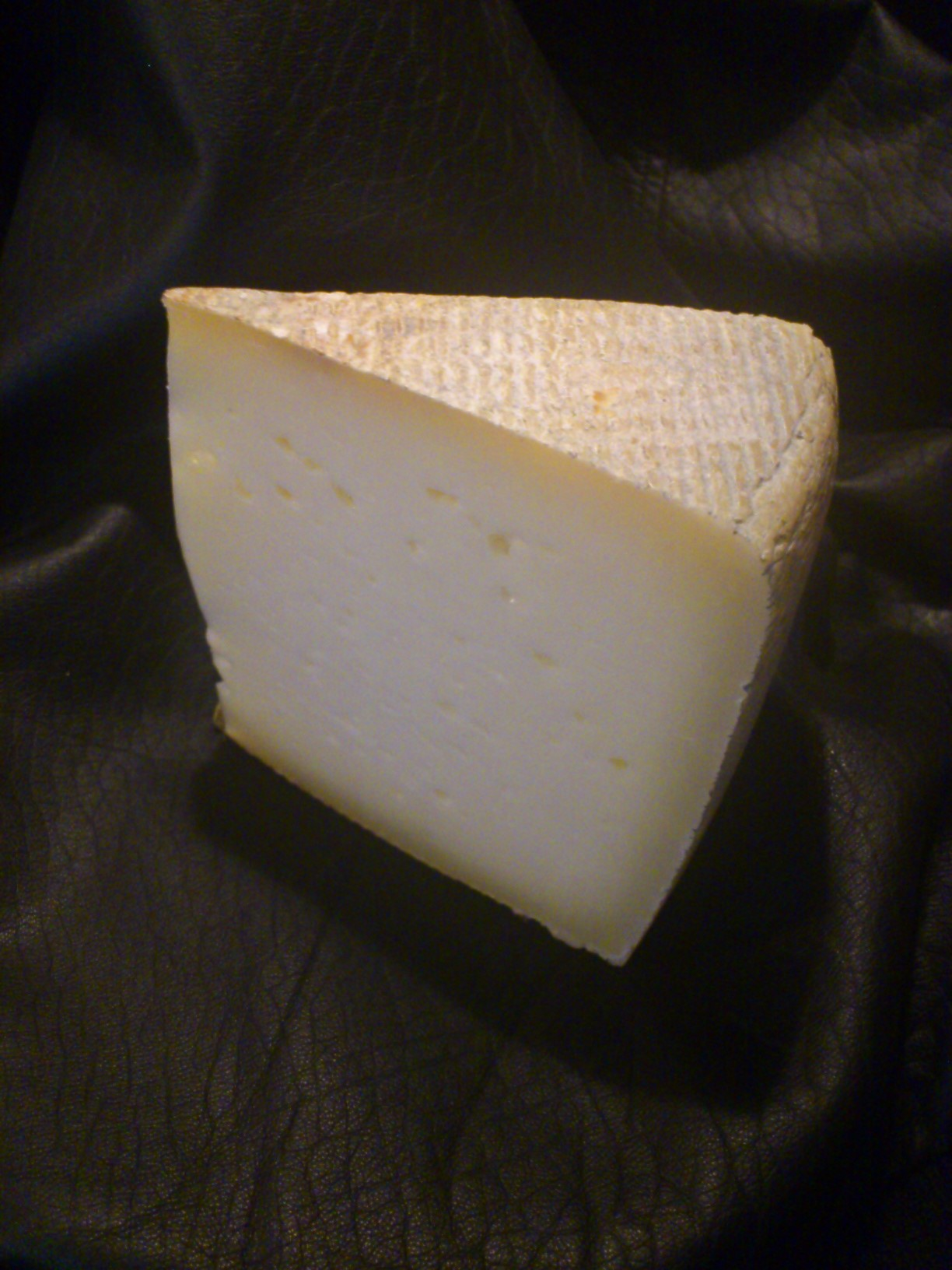 A piece of the Italian cheese Bastardo del Grappa.